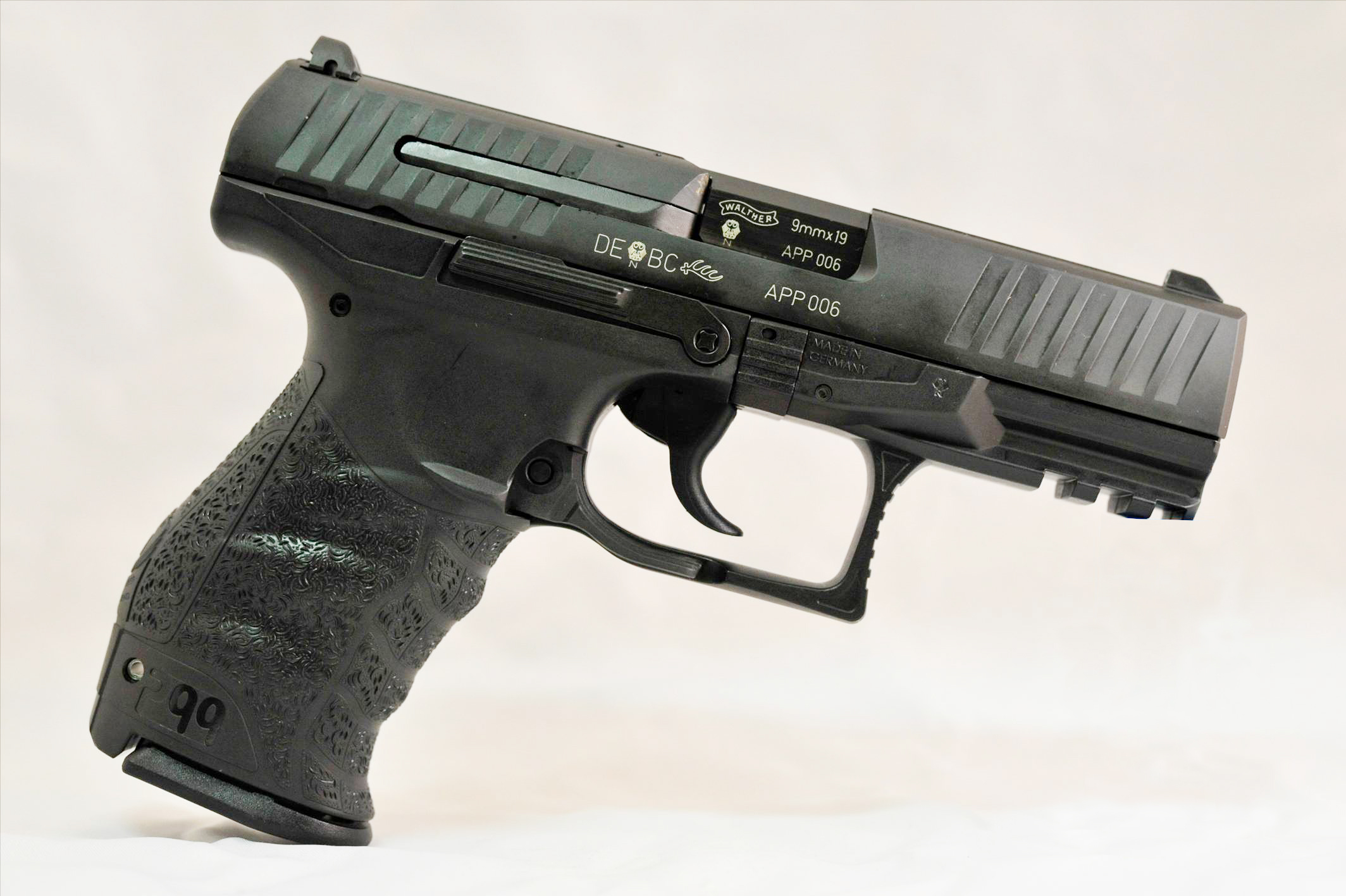 Walther P99Q police service pistol. The P99Q is a designated police pistol, which has been certified according to the Technical Specifications (TR) of the German Police (Technische Richtlinie Pistolen im Kaliber 9mm x 19, Revision January 2008). The P99Q is exclusively manufactured for domestic and foreign police departments and is not available on the civilian market. In 2013 the Netherlands Police will be armed with the P99Q NL (H3), as a replacement for the currently used Walther P5 and Glock 17 pistols. Part of the Dutch replacement operation will be the extra training of the police officers for their qualification with the new handgun. This operation will take place from 2013 up to 2014 and will include around 40,000 police officers. During the introduction of a new pistol the special police-units and key instructors for further training will have priority. The order consist of: 42,000 service pistols (also for the Dutch Customs service) 1,250 practice pistols 700 instruction pistols 1,000 pistols adapted voor firing FX simunition 190 cut away models The ammunition chosen for the Walther P99Q NL (H3) by the Netherlands Police is 9x19mm Parabellum RUAG SINTOX-ACTION 4 NP (Netherlands Police) lead free ammunition loaded with 6.1 g (64 gr) solid brass hollow point plastic tip covered projectiles. The orange coloured plastic tips of the NP variant are custom made for the Netherlands Police to facilitate easy forensic identification as police ammunition.